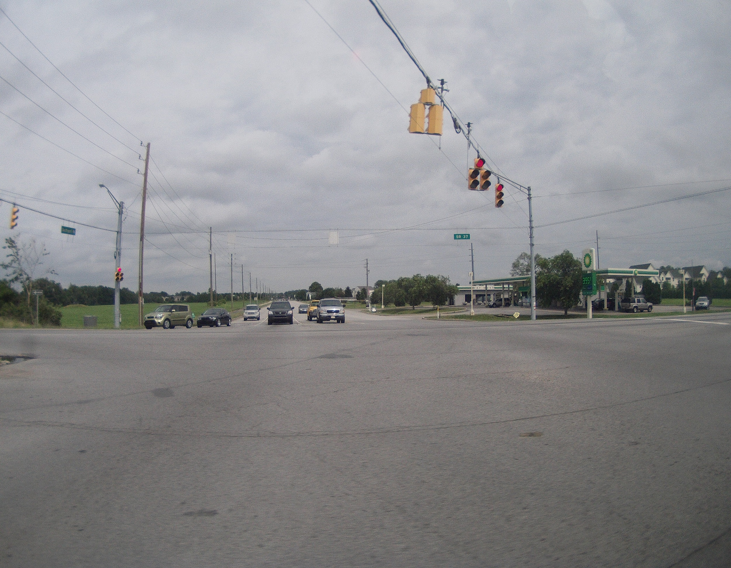 Intersection of Highway 37 and Southport Road, in Perry Township, Marion County, Indiana.